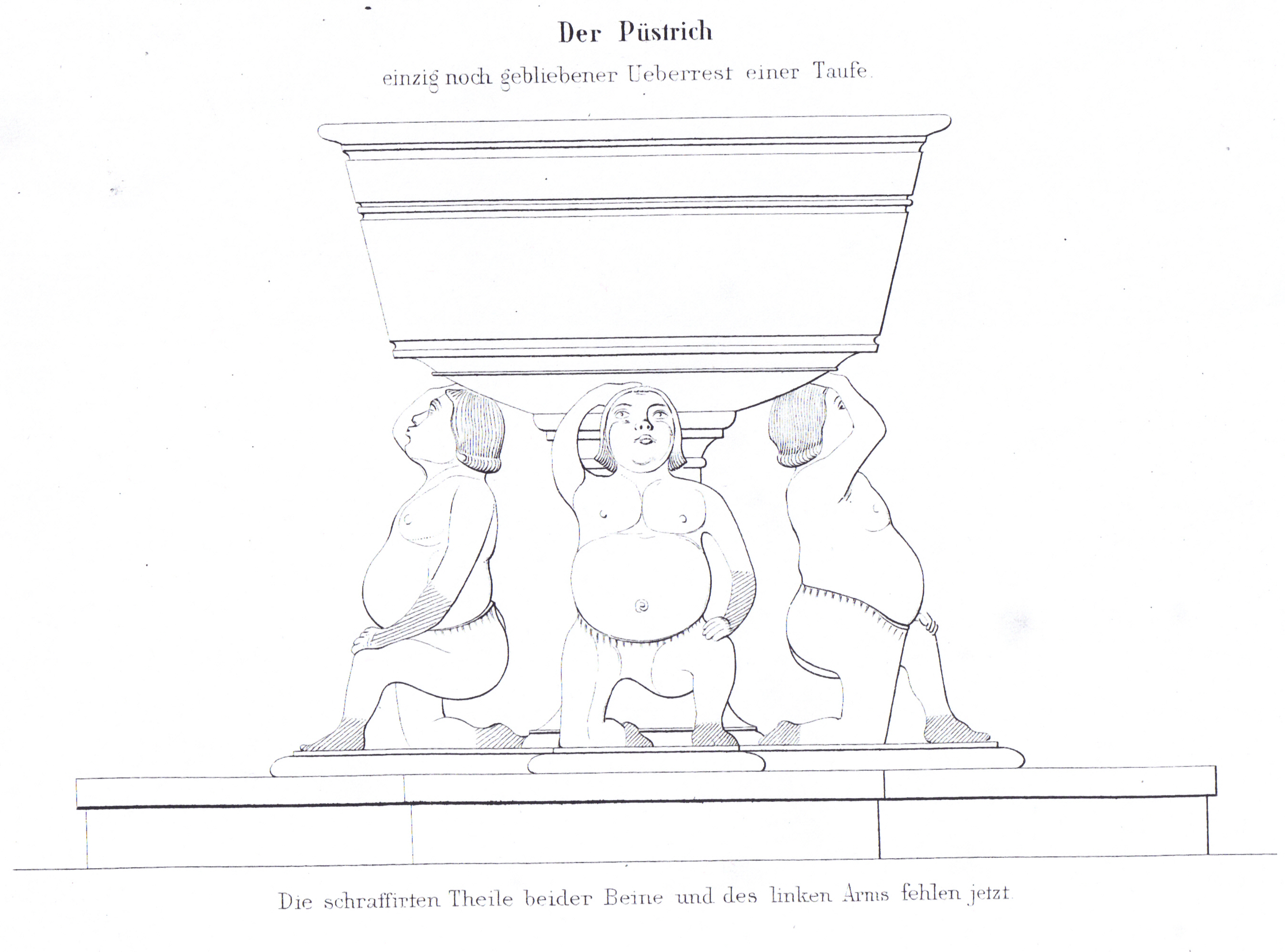 Püstrich of Sondershausen